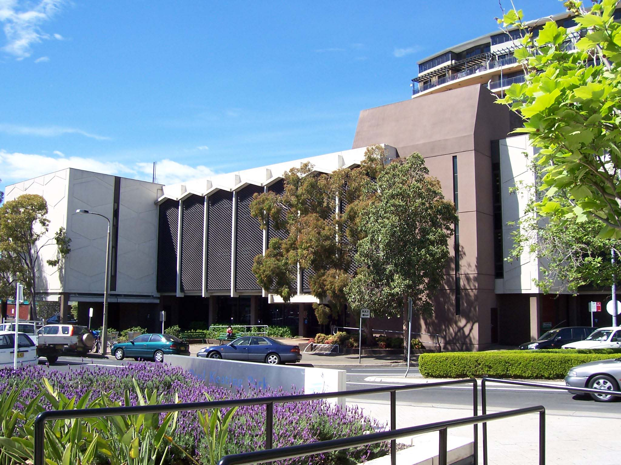 Personal image - Bankstown Main Library - Local Sydney Architecture - Three story complex opened in 1983, on the old site of the first library, which was established in 1954.